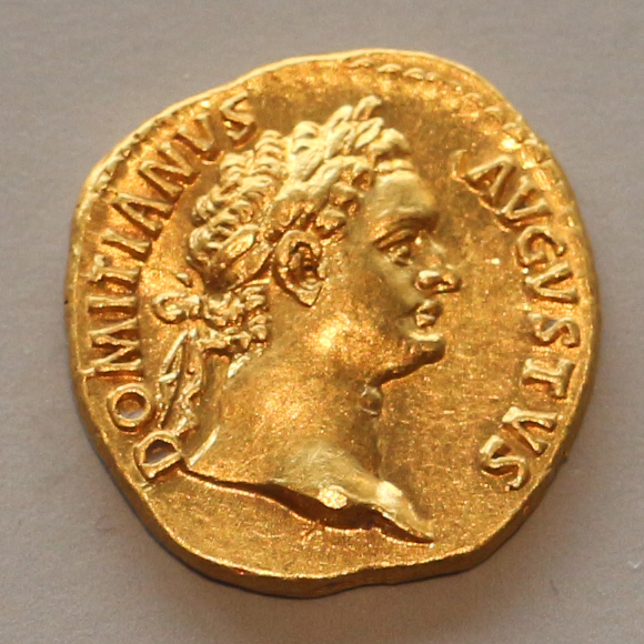 Coins in the Art Institute of Chicago